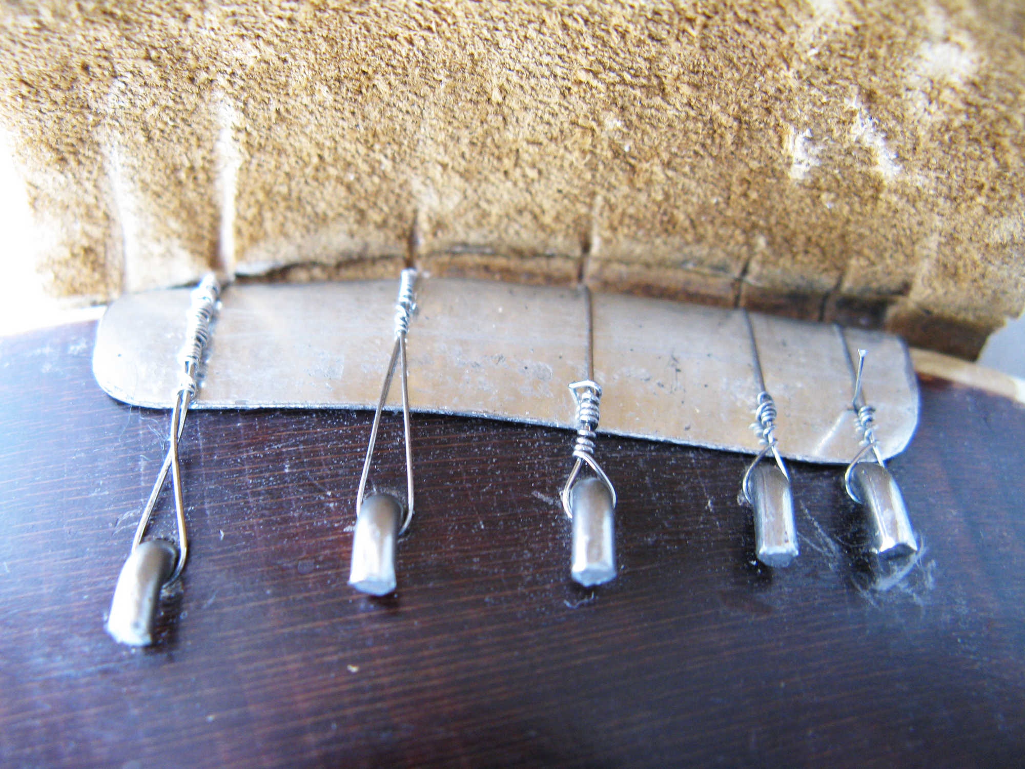 The string holders (iron) on tambura. - Tambura, a Hungarian instrument used in tambura ensembles. (Hungarian: Prímtambura, Serbian (only Vojvodina) / Croatian: tamburica or bisernica)